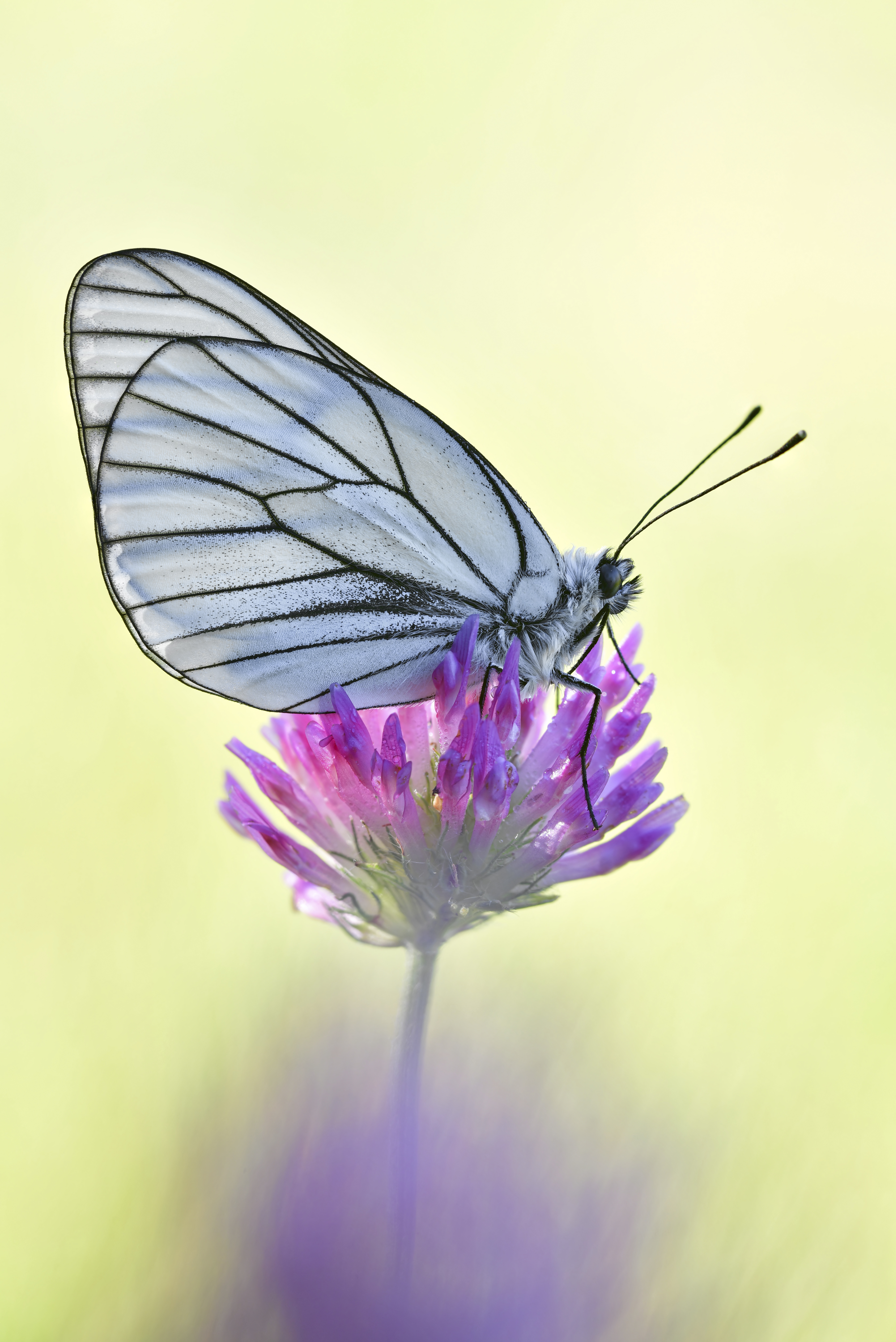 Black-veined white (Aporia crataegi) on the red clover (Trifolium pratense). Naturschutzgebiet Wittenberge-Rühstädter Elbniederung, Germany